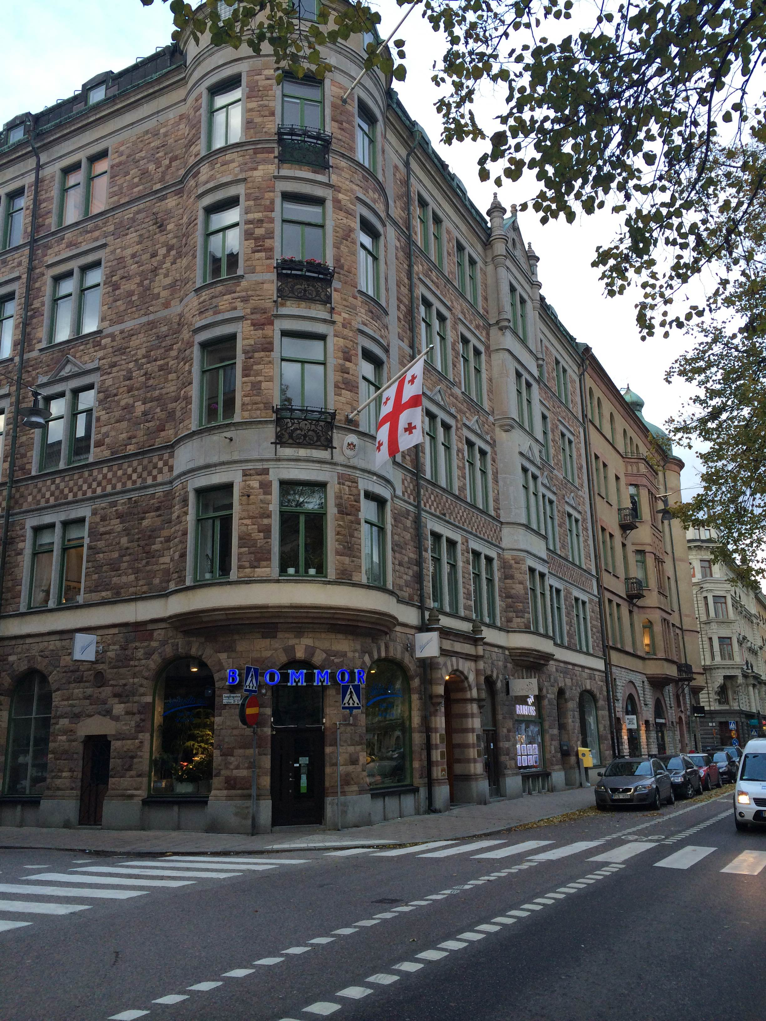 Georgian embassy in Stockholm